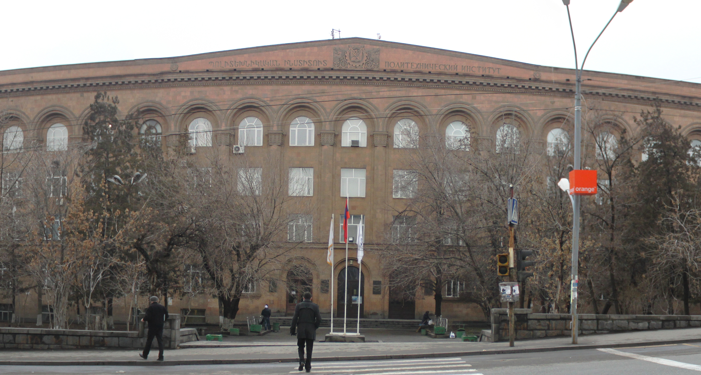 National Polytechnic University of Armenia, building 2 (main building). Panorama stitched from 3 pictures using Hugin.